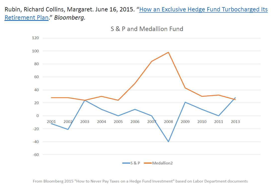 basic PowerPoint graph based on Bloomberg 2001 article comparing Medallion to S&P